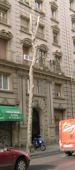 Platanus x hispanica València street in Barcelona, Catalonia. February 2007